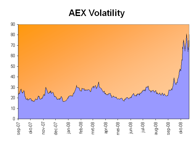 Implied volatility AEX index from 3-9-2007 till 24-10-2008